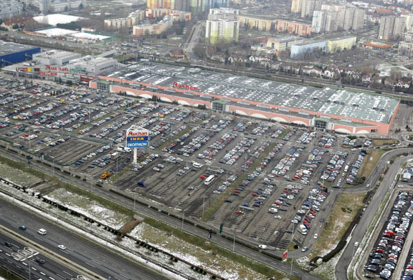 Auchan parking place, Budaörs, Hungary, aerial photography